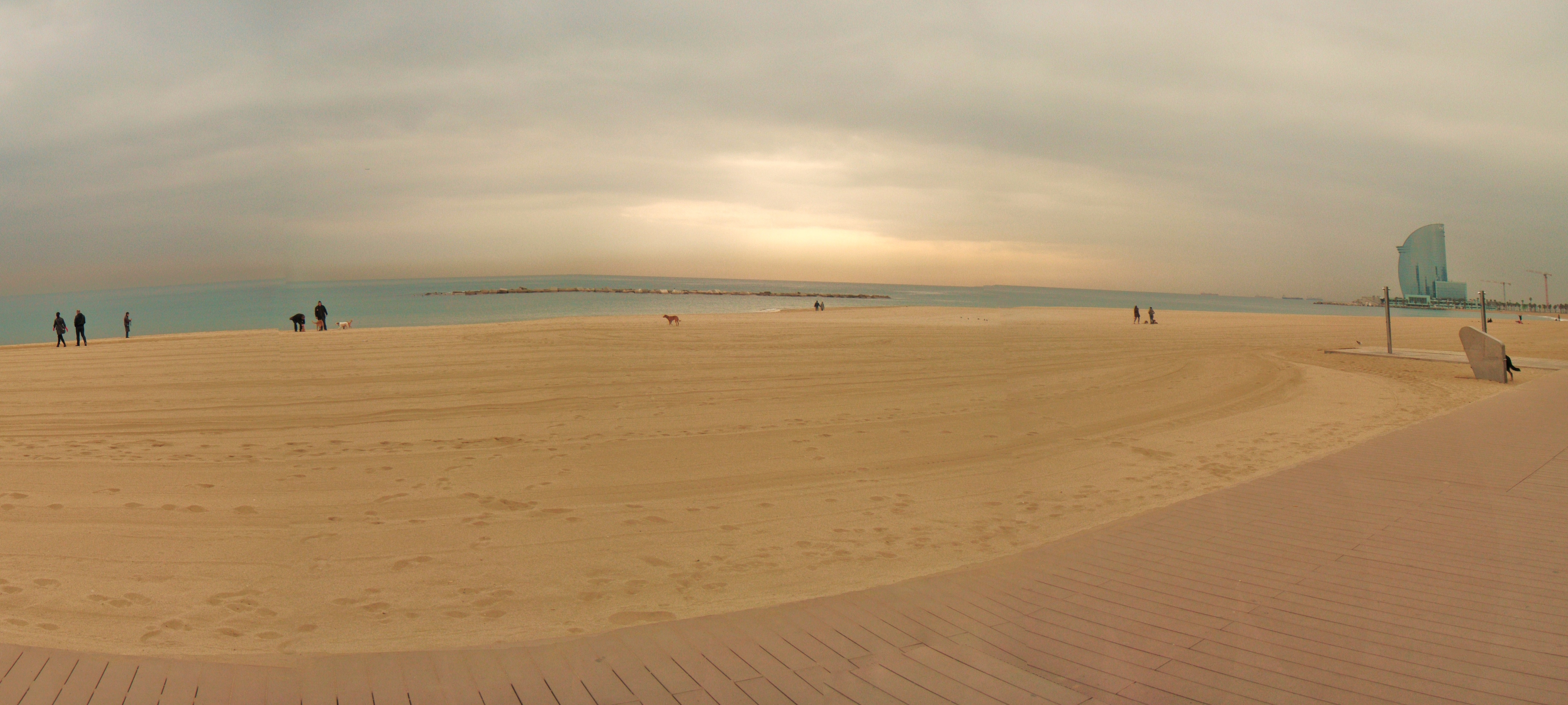 Deserted beach of Barceloneta in February 2011